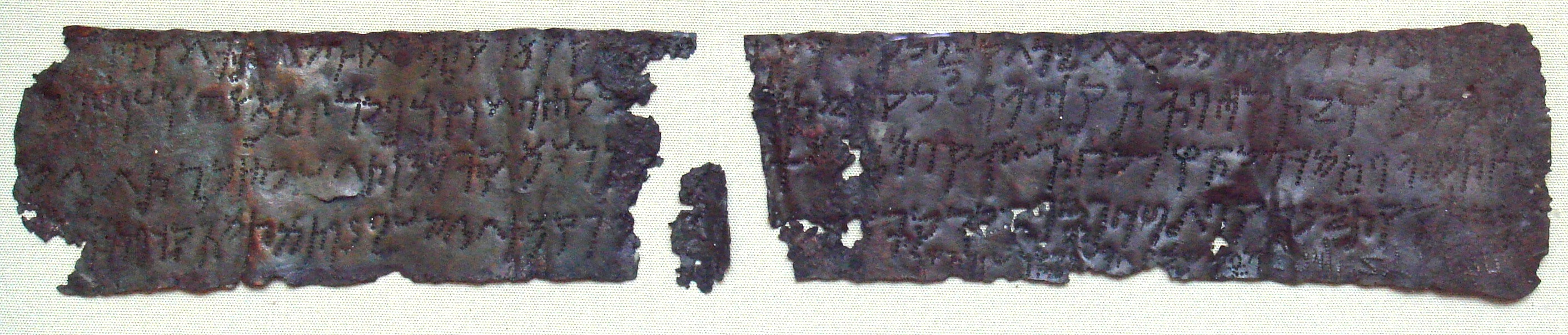 Taxila copper plate Another view